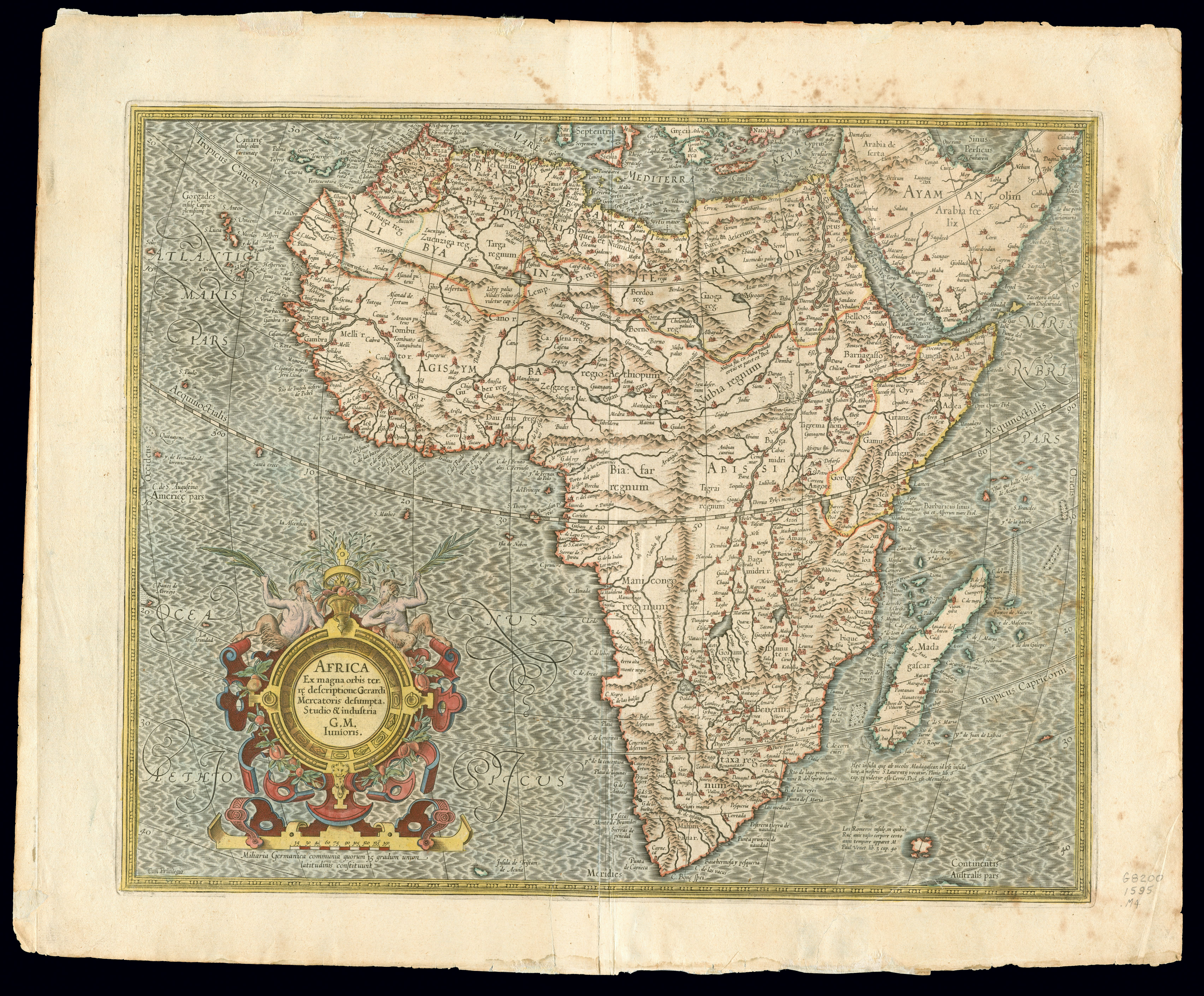 Title Africa : ex magna orbis terre descriptione Gerardi Mercatoris desumpta; studio & industria G.M. Iuniori Description Relief shown pictorially. "Cum previlegio." Verso pages numbered 64 and 61. Based on a map from Gerhard Mercator's Atlas sive cosmographicae meditationes de fabrica mundi et fabricati figura. (Description from: North West University Library)